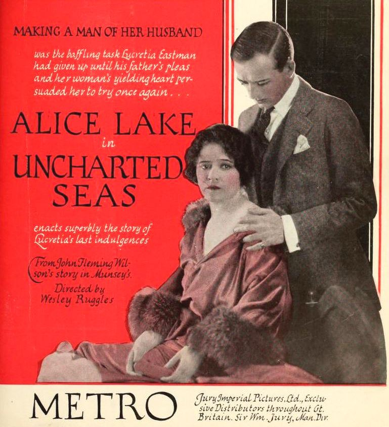 Advertisement for the American drama film Uncharted Seas (1921) with Alice Lake and Rudolph Valentino, on the cover of the April 24, 1921 Film Daily.